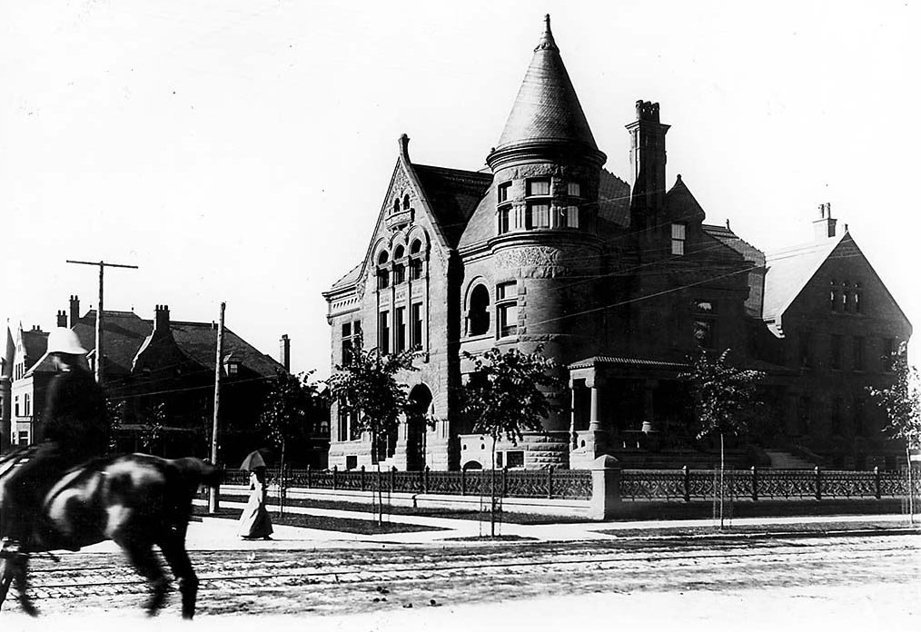 Home of George Gooderham Sr. (1830–1905), northeast corner of St. George and Bloor streets. It later became the York Club. Located at 135 St. George Street in Toronto.